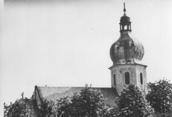 Church of the Nativity of the Virgin Mary with the original onion dome, about 1944